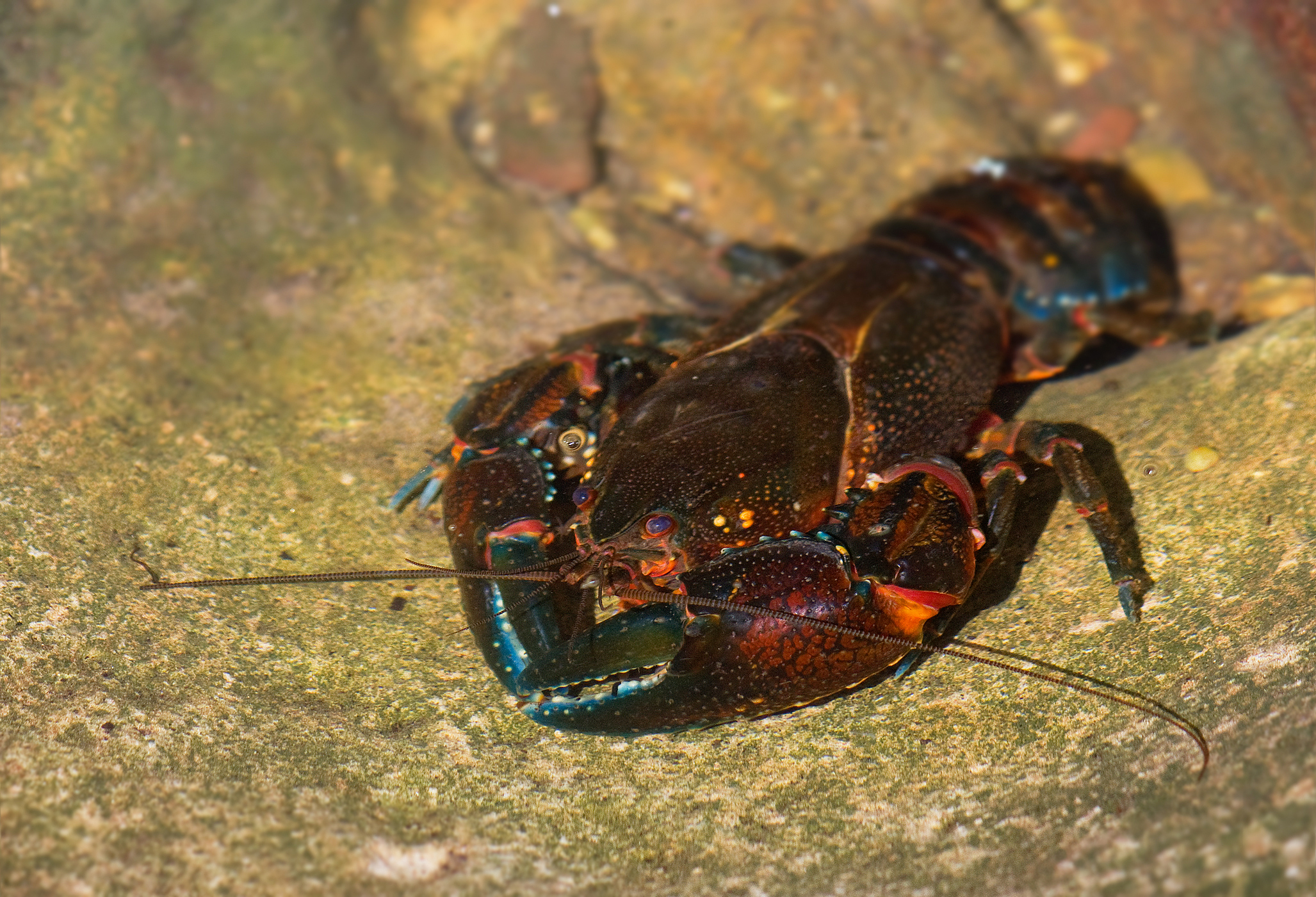 Euastacus sp, Leura Cascade, Katoomba, Blue Mountains, New South Wales, Australia